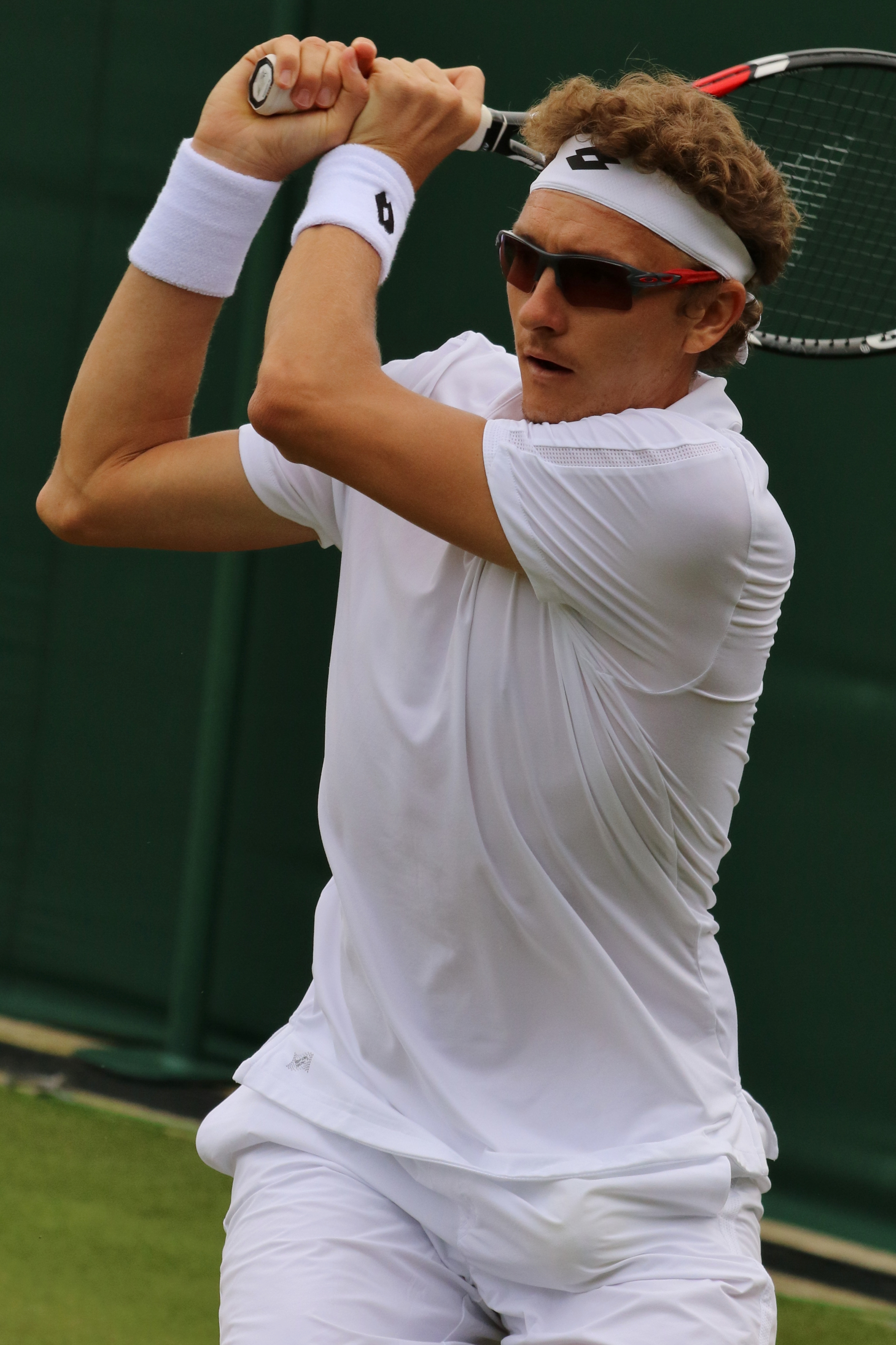 Istomin WM16 (7)